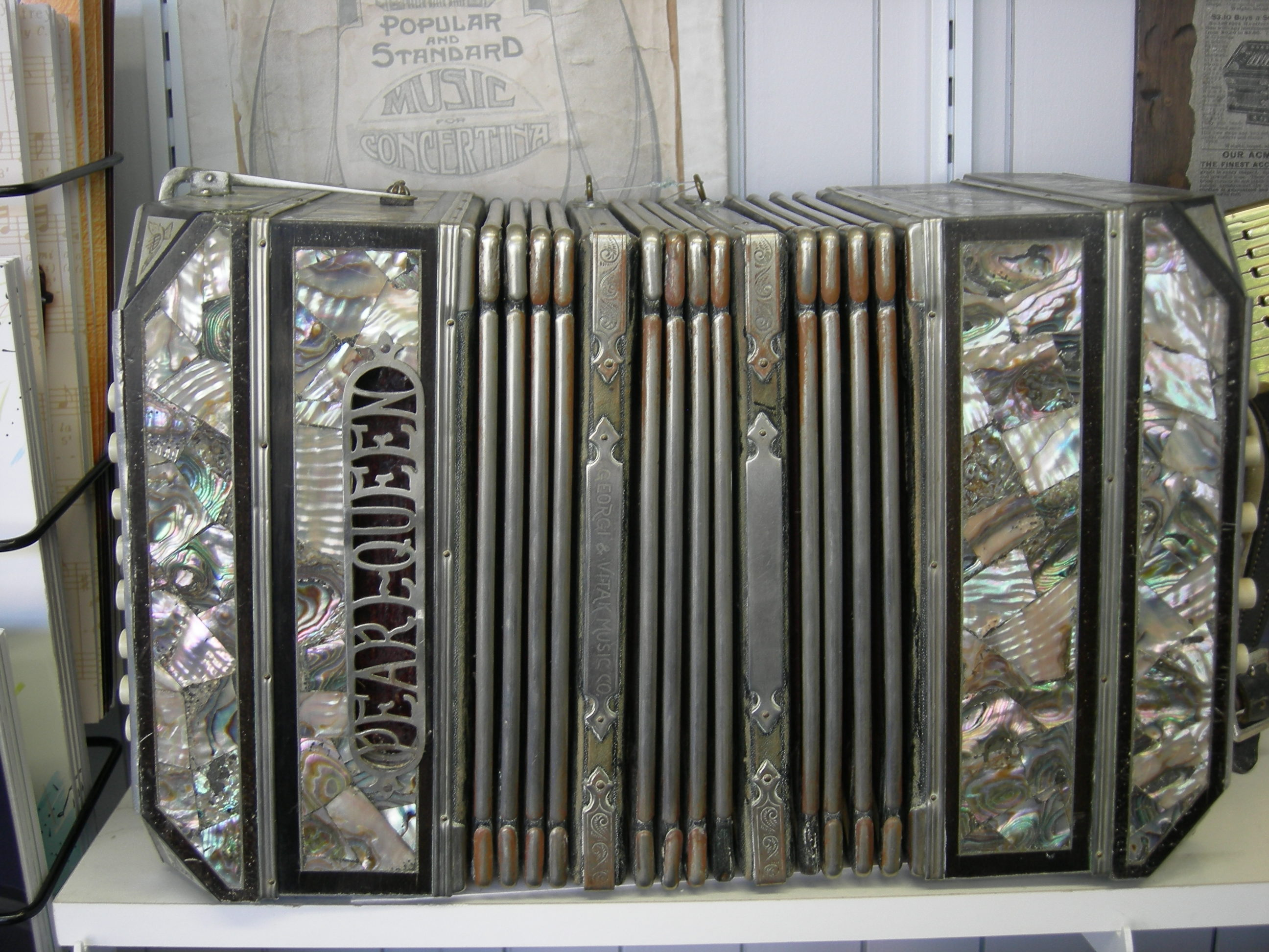 Georgi & Vitak Music Co. "Pearl Queen" concertina in the collection of Petosa Accordions, Seattle, Washington, on display in their shop. If someone knows more about this instrument, please feel free to enhance the description.